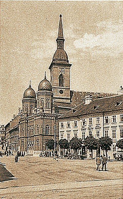 photo archive of the author